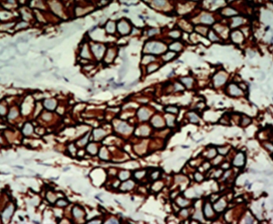 Positive immunohistochemistry of HER2 in invasive breast cancer, seen as a brown and continuously stained cell membrane.